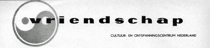 Title and logo of "Vriendschap", the magazine of the Dutch gay right organization COC, January 1956.